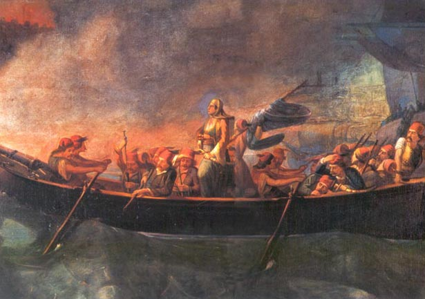 Laskarina Bouboulina, heroine of the Greek War of Independence